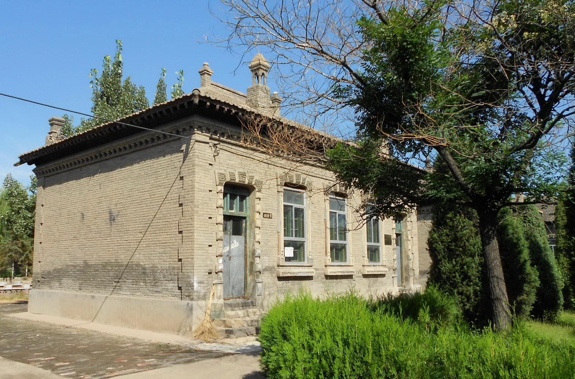 The Shanxi Third Middle School, Classroom